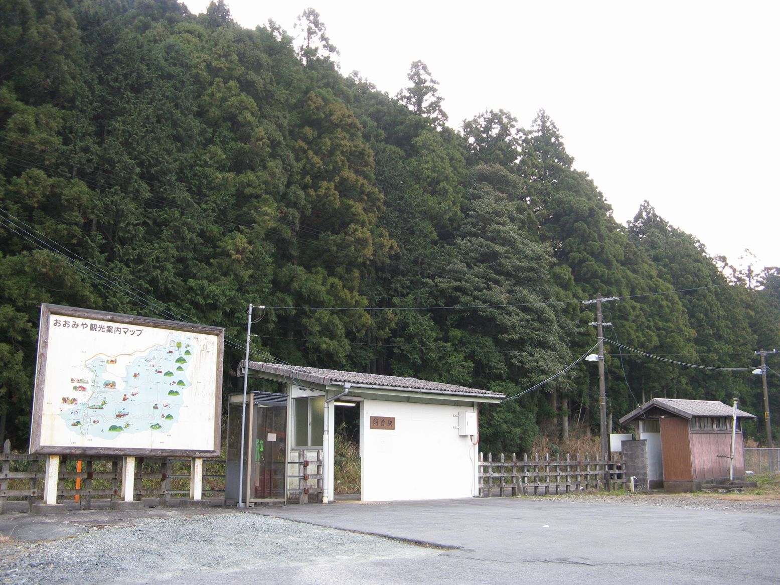 Aso Station, Taiki, Mie, Japan